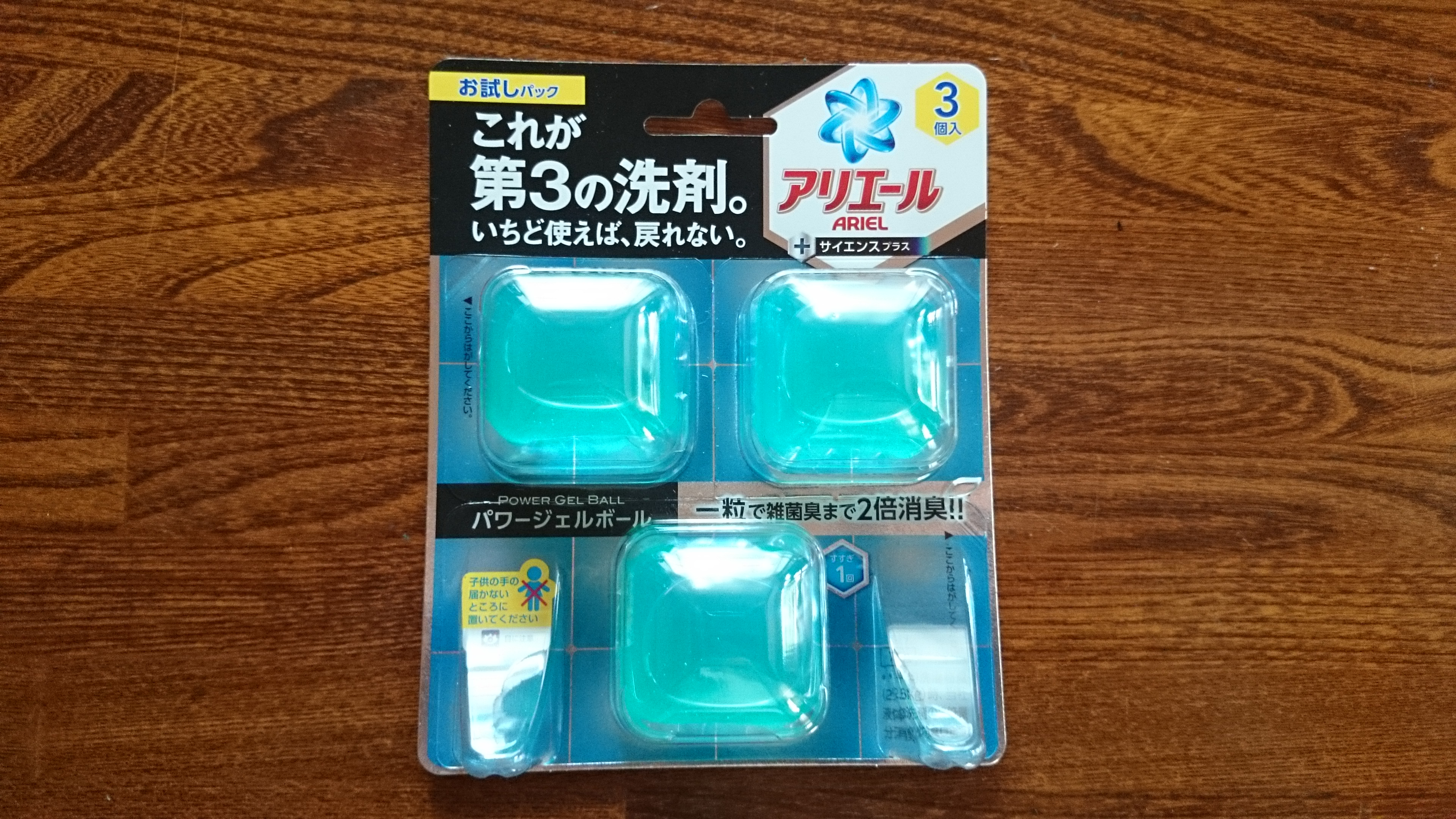 P&G Ariel Power Gel Ball Trial Pack